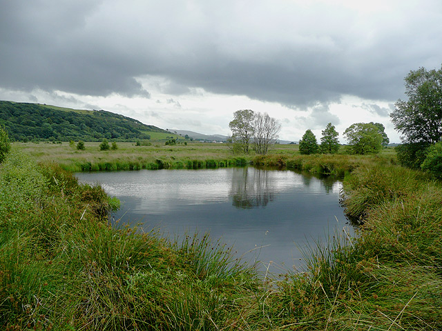 Cors Caron in July, near Tregaron, Ceredigion July has been a windy rainy month - again. This landscape shows the view south from the public bird-hide. The bog covers more than 800 acres (325 hectares). It is 6km in length and provides a habitat for a wide range of wildlife and plants. The bog itself was formed 12,000 years ago when the last of the Ice Age glaciers melted away. A large shallow lake was left, which very gradually filled with sediments and vegetation, forming peat and later, acid peat.